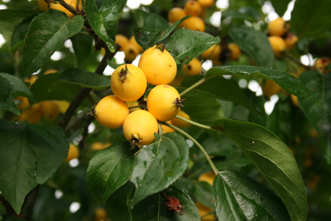 Malus baccata: Cultivar with yellow fruits (perhaps cv. 'Golden Hornet'?).